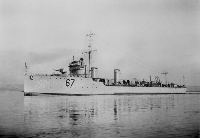 AWM Caption: Port side view of HMAS Torrens. (Print supplied by "Our Australian Navy").